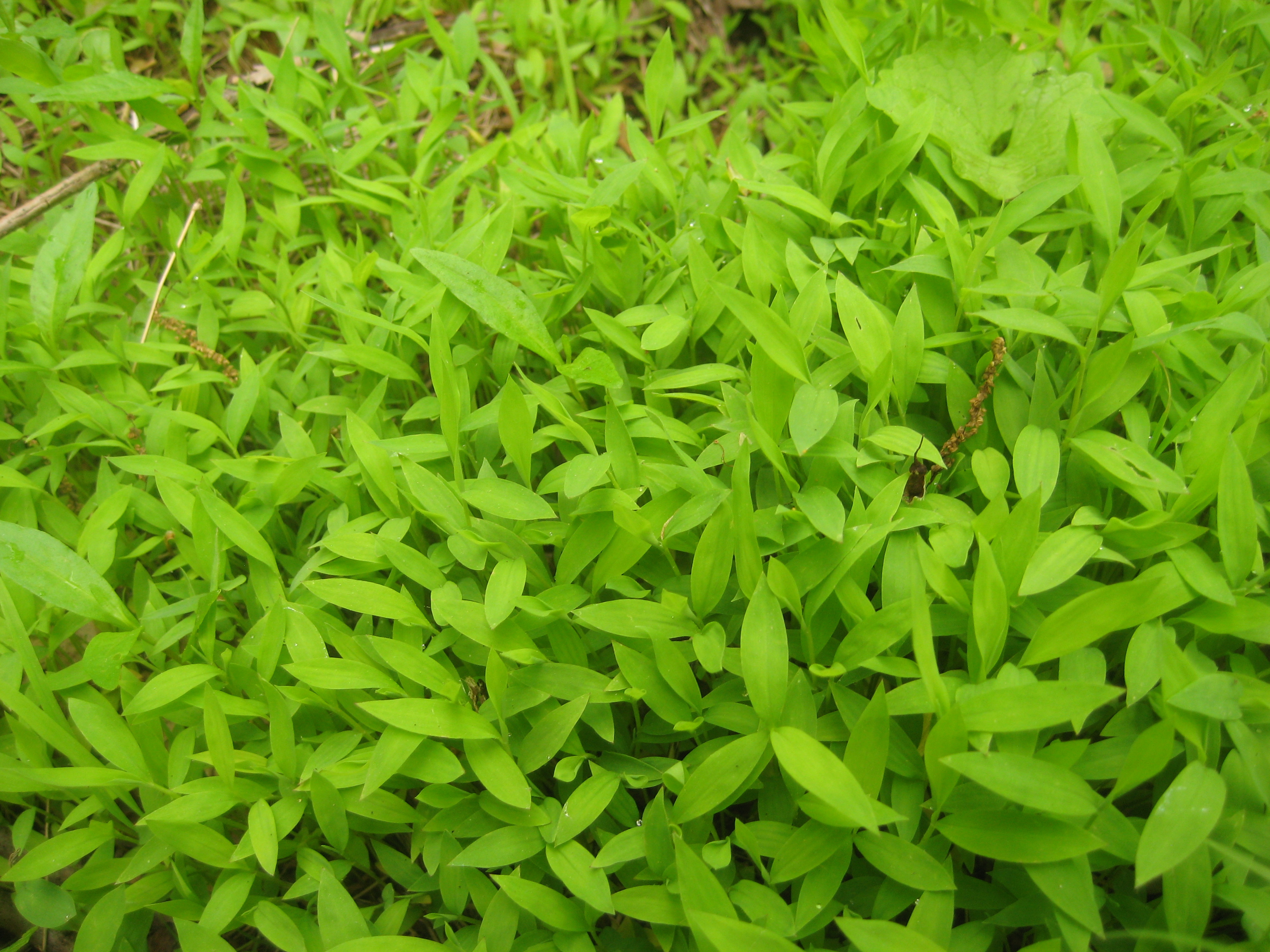 Young Microstegium vimineum growing near a stream in Central New Jersey, USA.